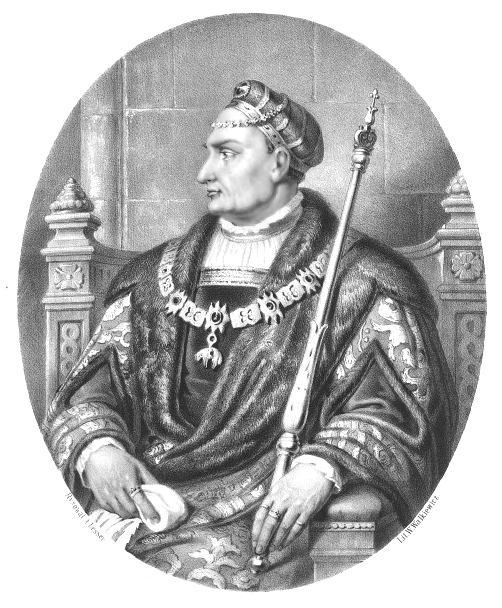 Zygmunt I Stary